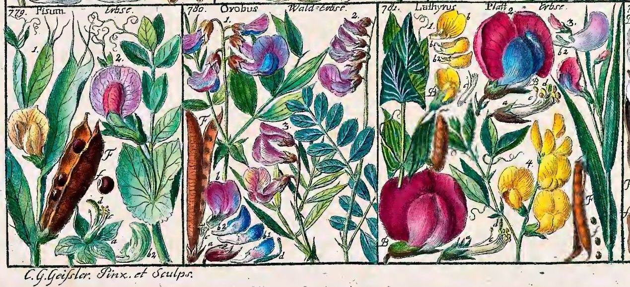 Portion of plate from volume 2 of 2 : 'Tabulae Phytographicae' by Johannes Gessner and illustrated by Christian Gottlieb Geissler (1729 Augsburg - 2 November 1814 Geneva)